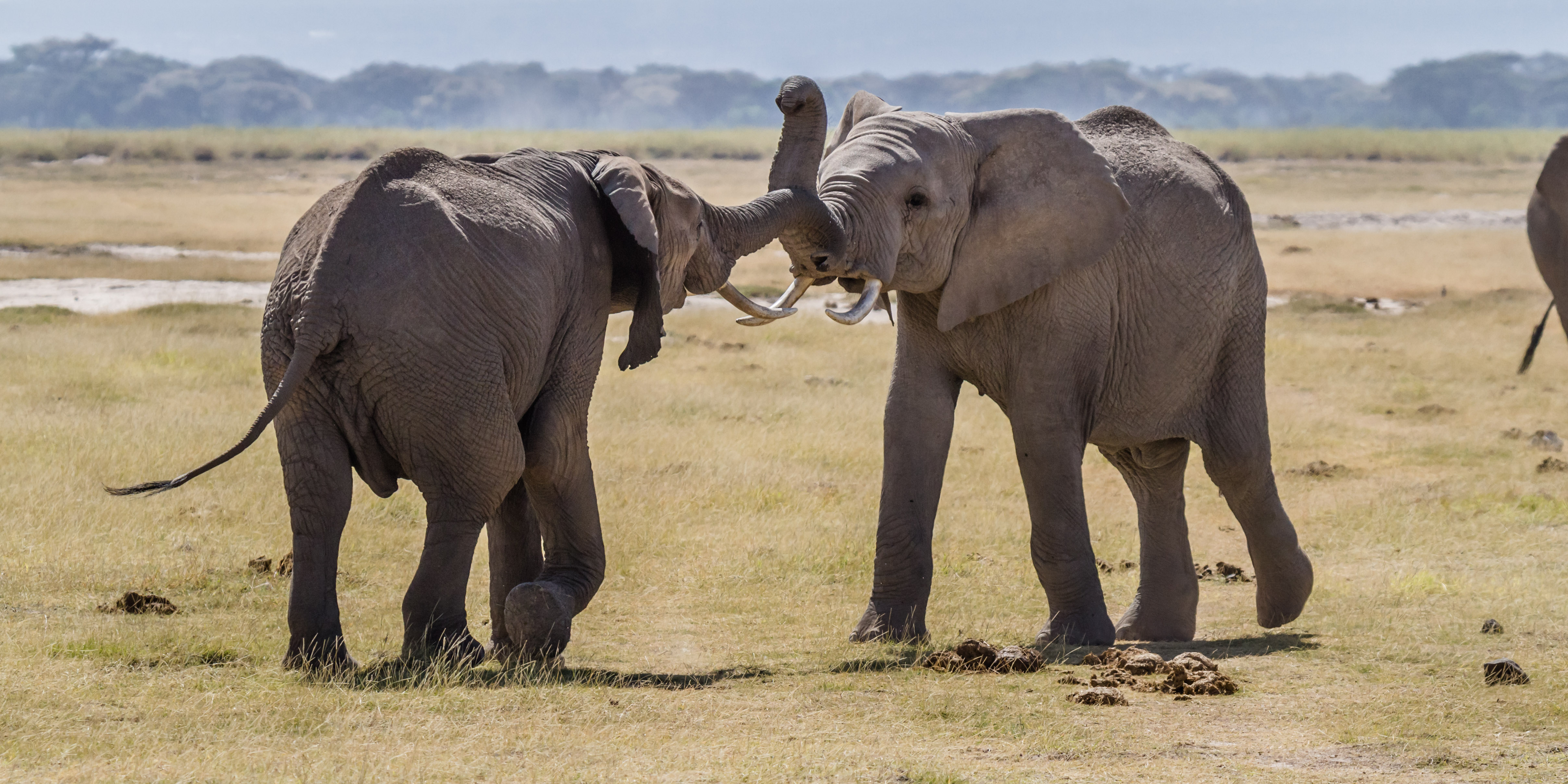 Two elephants fighting. The clear one (right) seemed to chase the dark one (left) from the herd